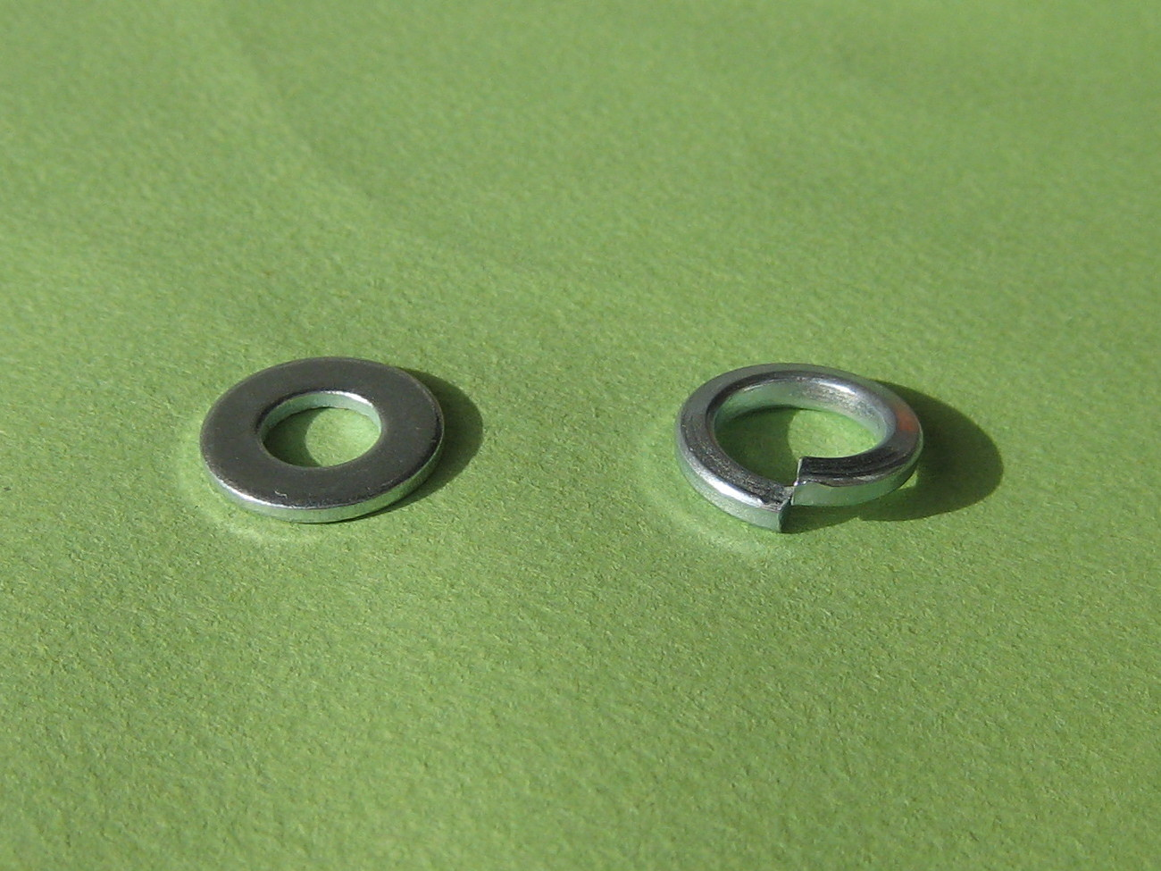 Washer and spring lock washer